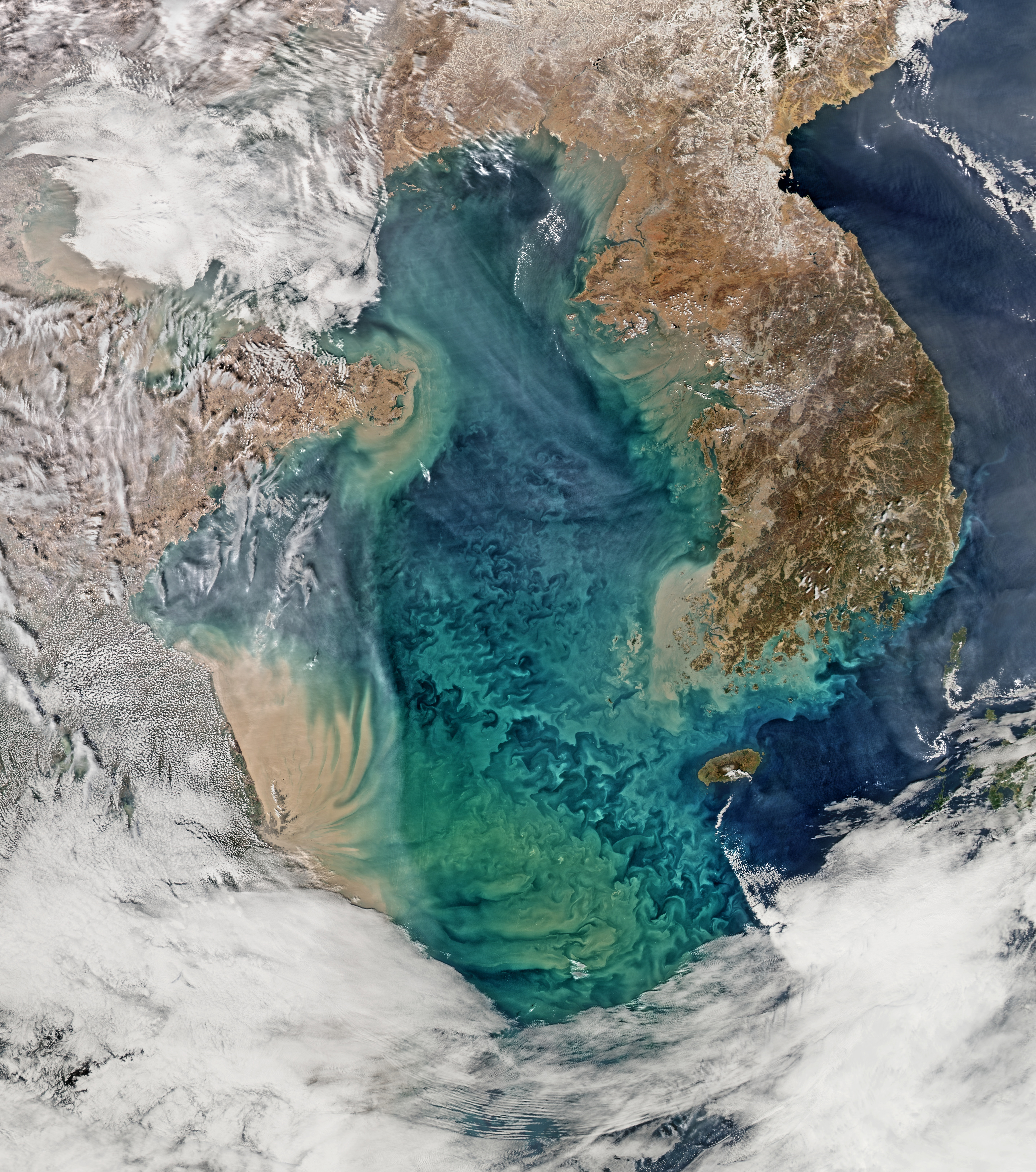 Sediments enter the Yellow Sea. Image created using Aqua-MODIS data collected on February 24, 2015.